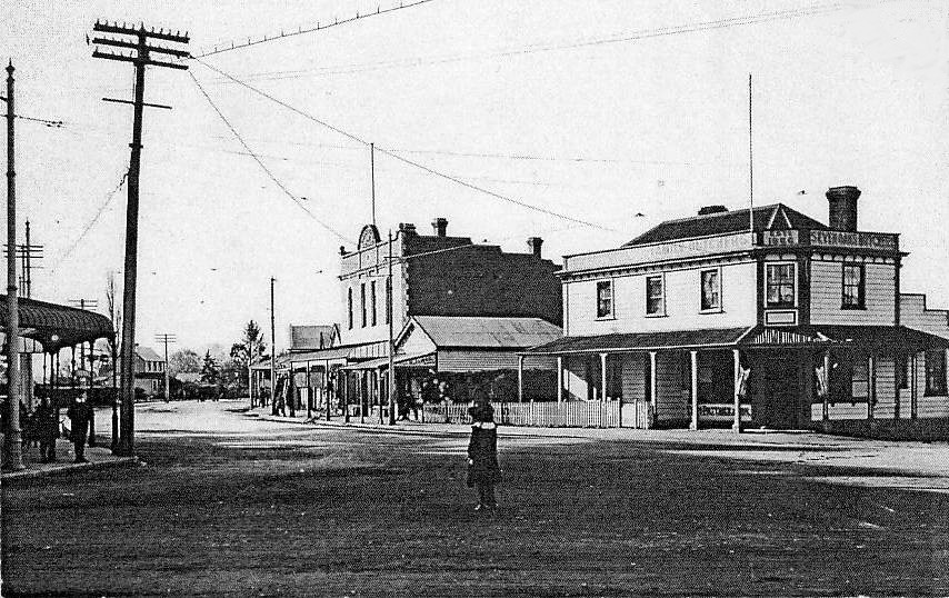 Papanui Junction circa 1910 looking up the Main North Road.